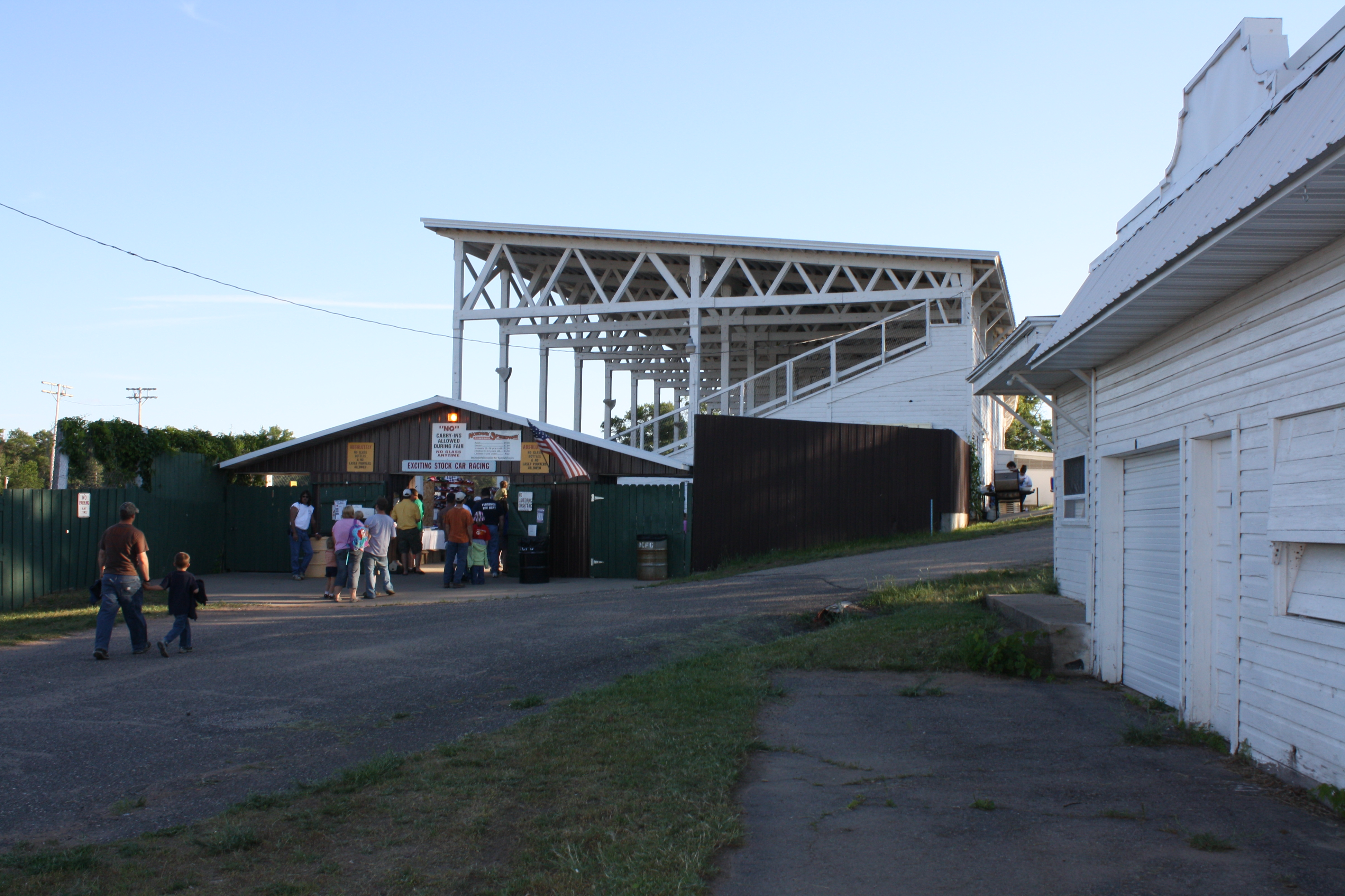 The Dickinson County, Michigan fairgrounds, the site of Norway Speedway.